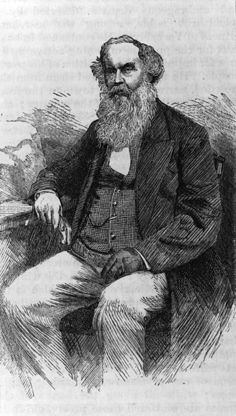 Titus Salt, three-quarter length portrait, seated, facing slightly left. Wood engraving.